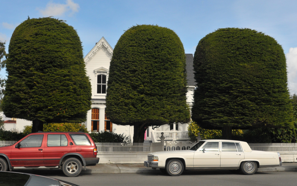 Street view of A. Berding House, 1875, also called "The Gum Drop Tree House" for the row of trimmed Cypress trees in front.